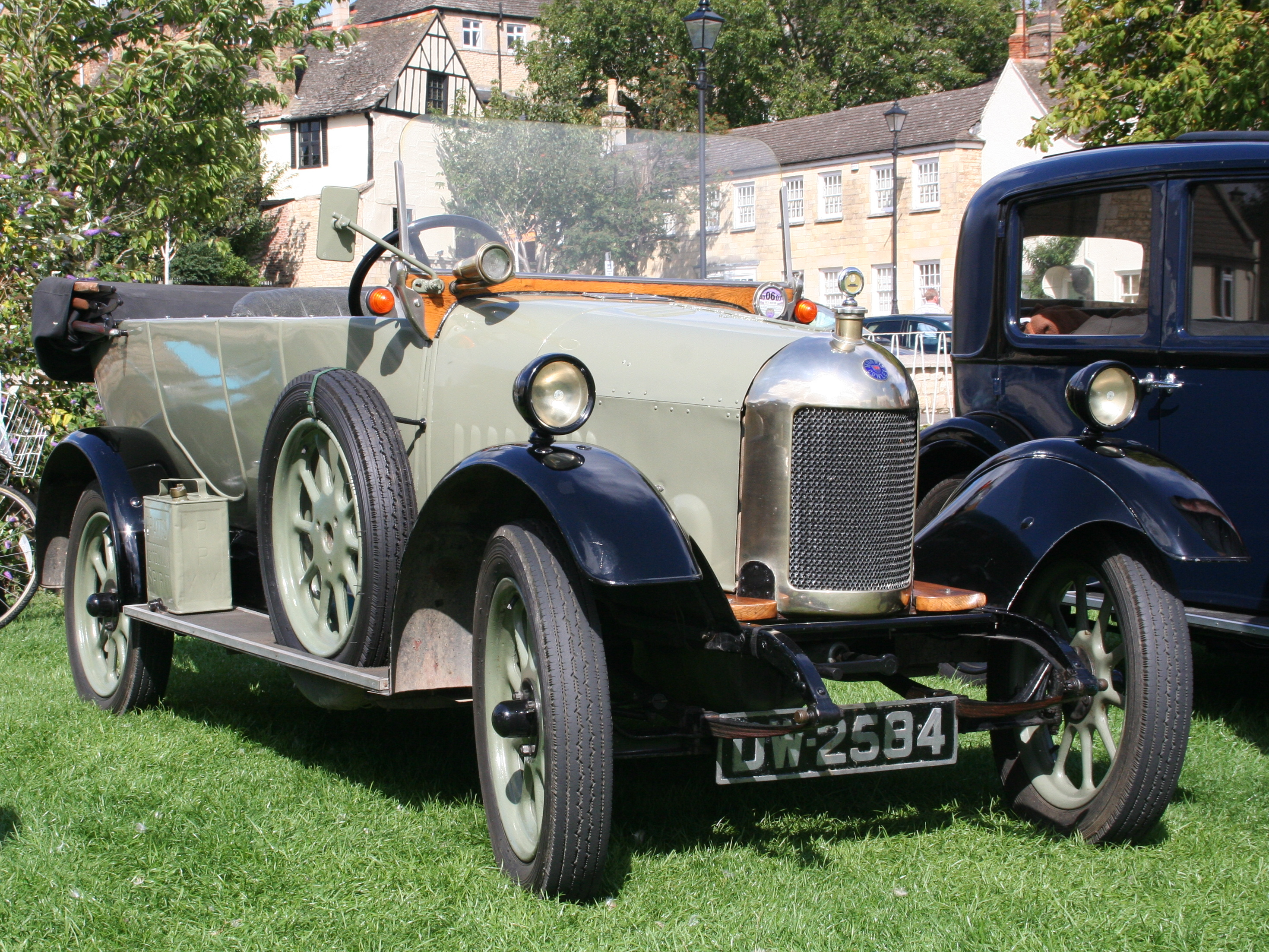 Bullnose Morris Cowley DVLA 1466cc, made 1922, first registered 7 March 1922